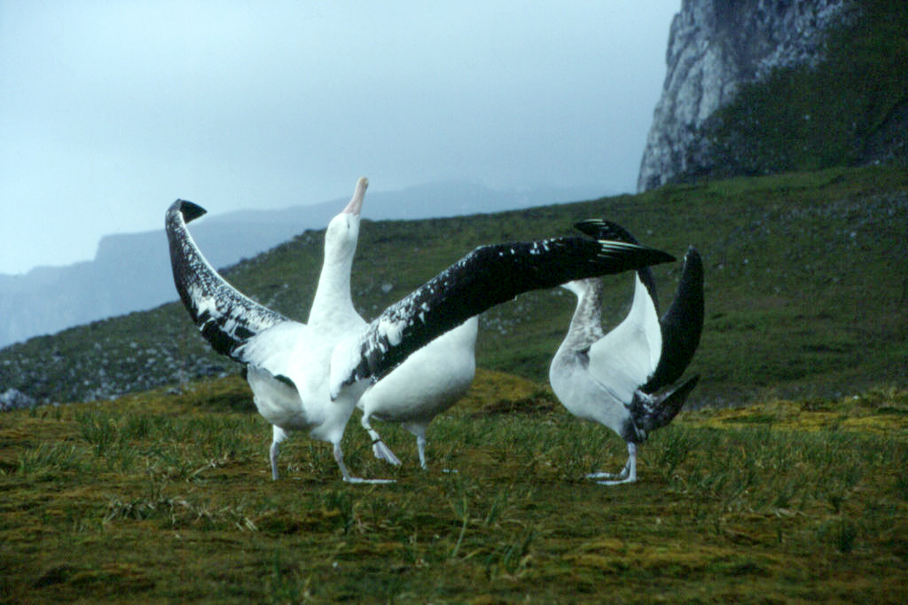 Wandering albatross. Diomedea exulans, on the West coast (presqu'île Railler du Baty) of the Grand Terre, main island of Kerguelen archipelago.